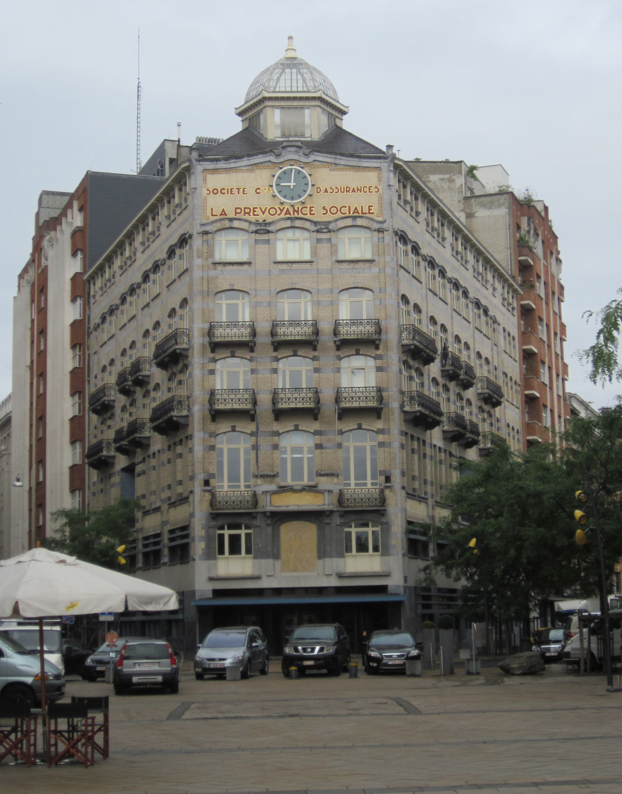 La Prévoyance Sociale in Anderlecht, Brussels. Today the building houses the offices of Cegesoma.